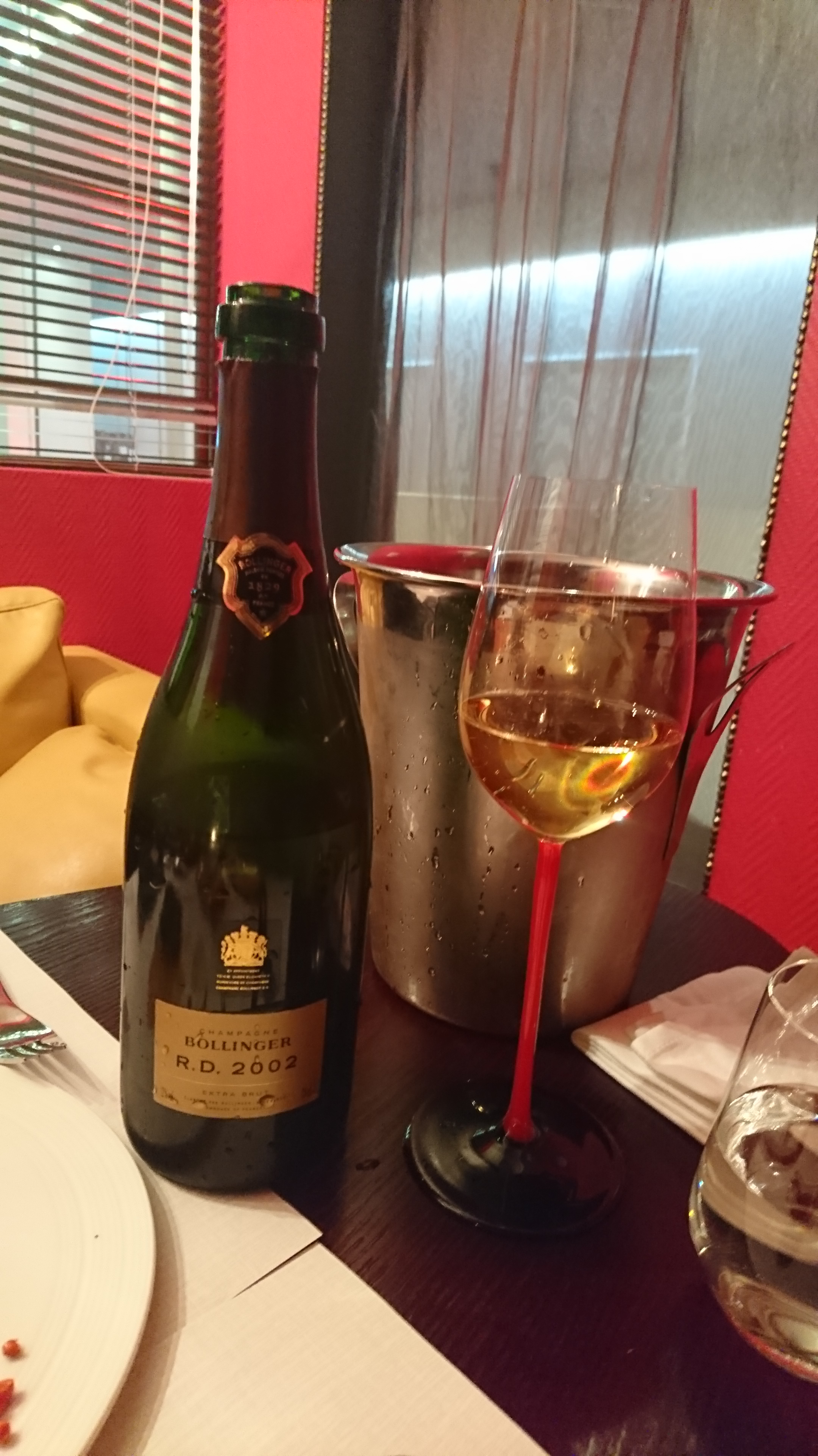 Bollinger R.D